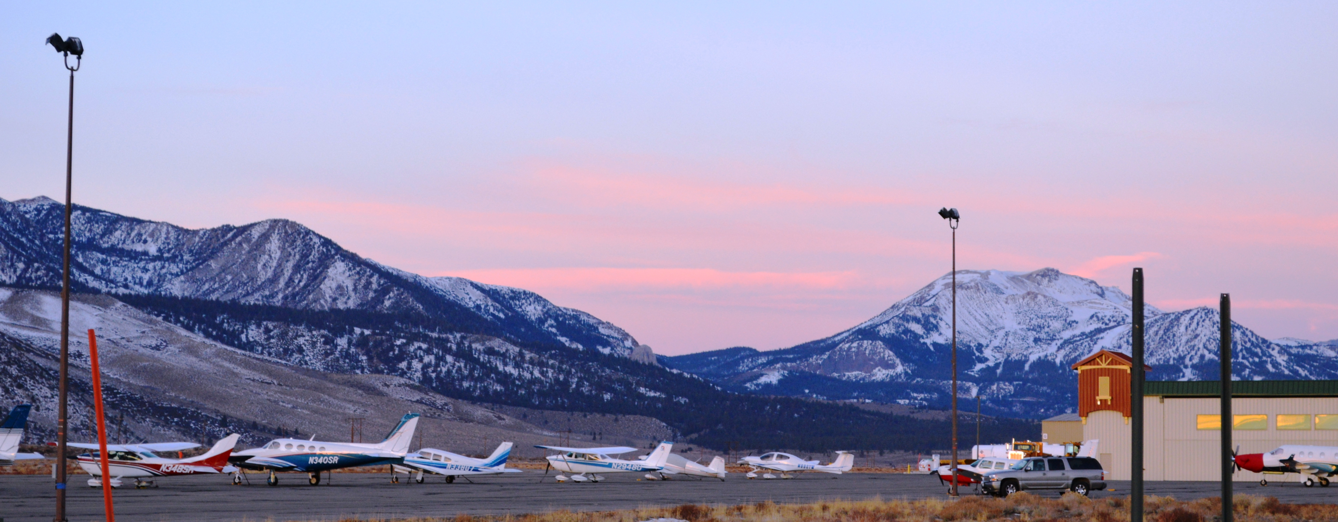 Mammoth Yosemite Airport, also known as Mammoth Lakes Airport, shortly (about 6-7 minutes) before sunrise, with the Sherwin Range on left and Mammoth Mountain on right.